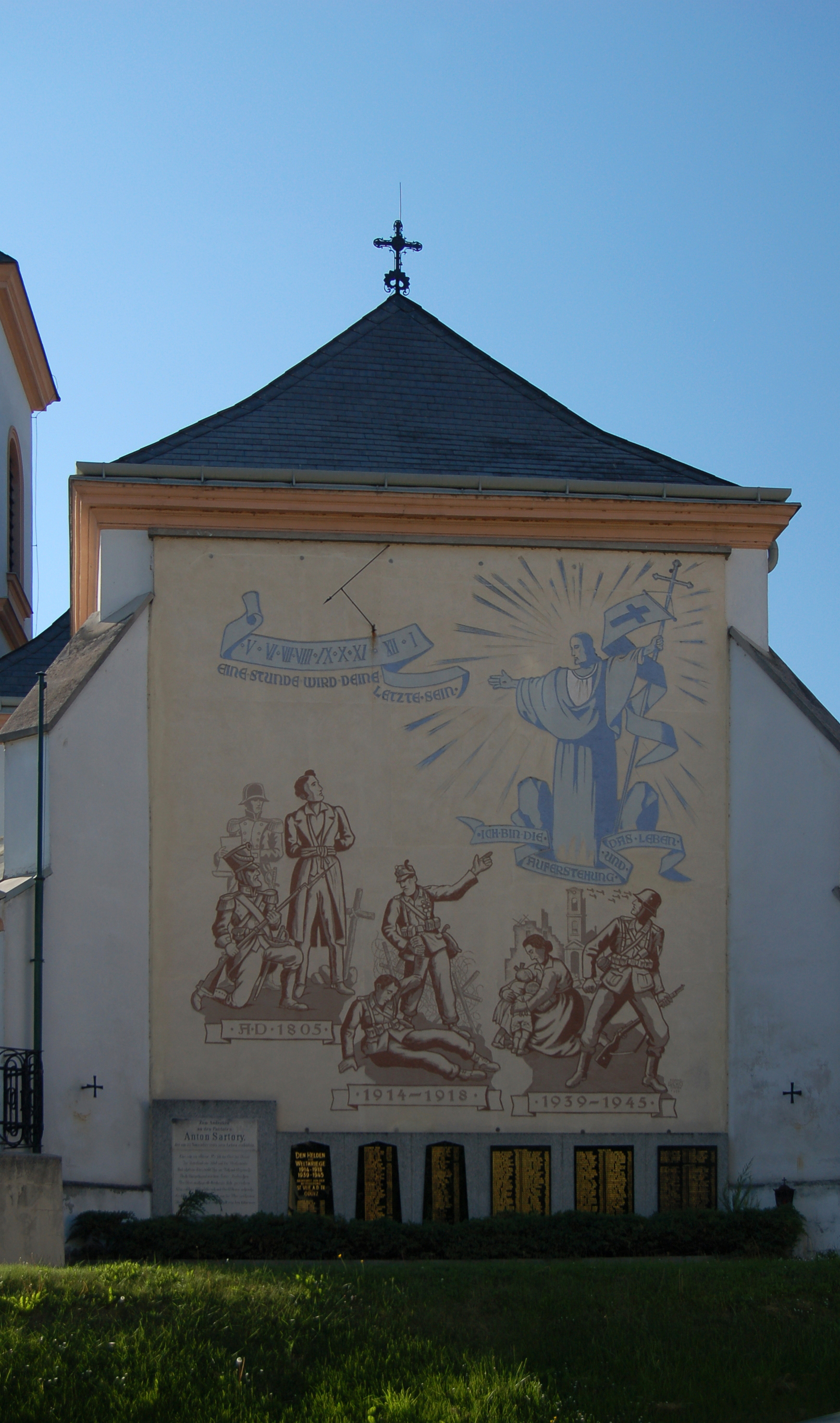 The parish church St. Vitus in St. Veit an der Triesting, in Berndorf, Lower Austria is a cultural heritage monument. On the east face, a war memorial created by Franz Bilko (Sgraffito).